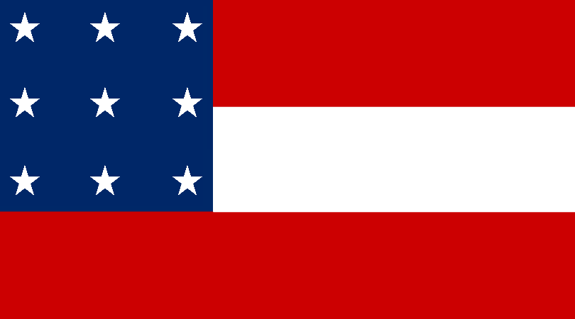 9-star Confederate First Naval Ensign of the CSS Curlew, a paddle steamer in the service of the Confederate States Navy